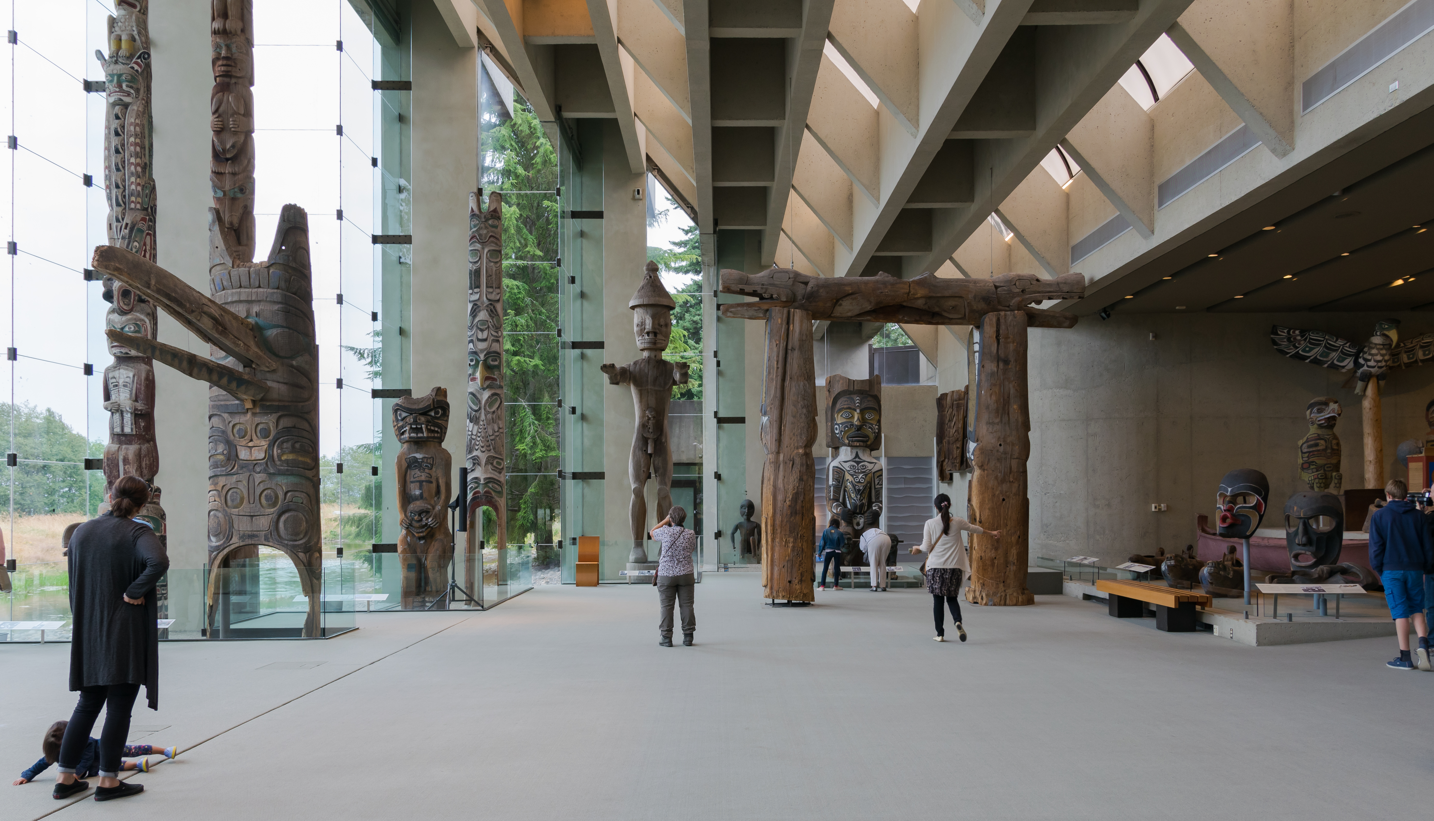 Main Hall at the University of British Columbia Museum of Anthropology